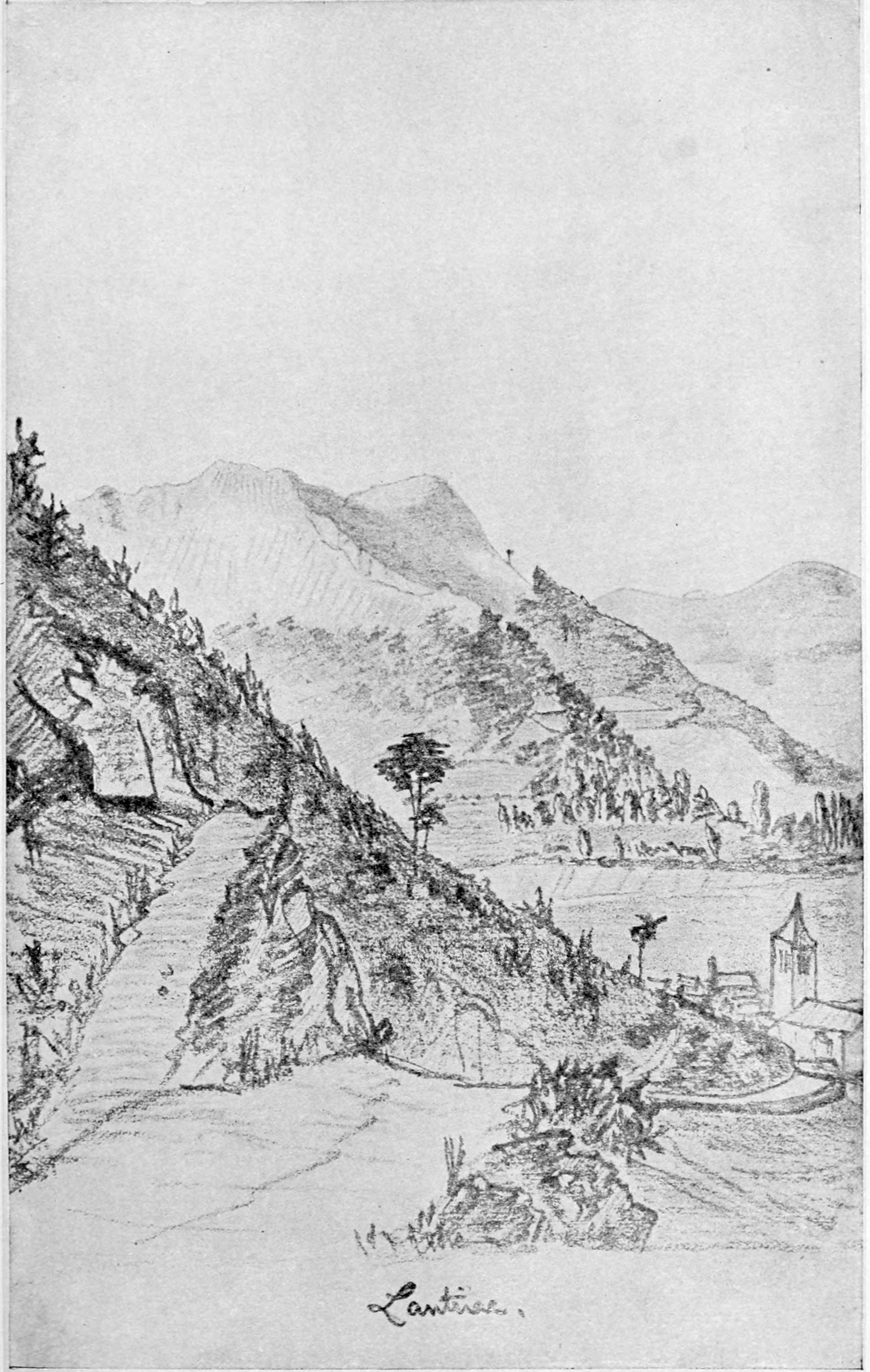 Lantriac